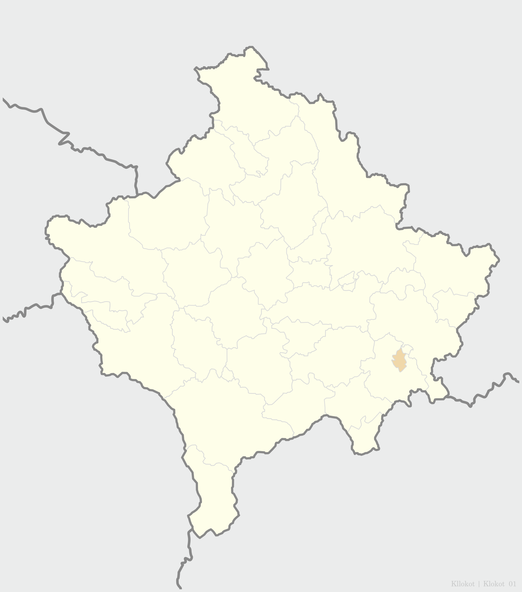 Municipality of Klokot map